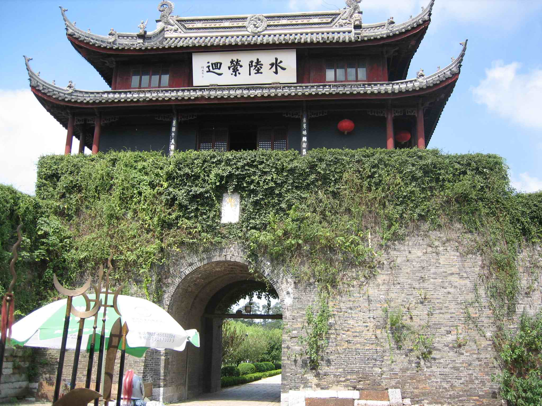 I took this picture while in Suzhou,Jiangsu,China.